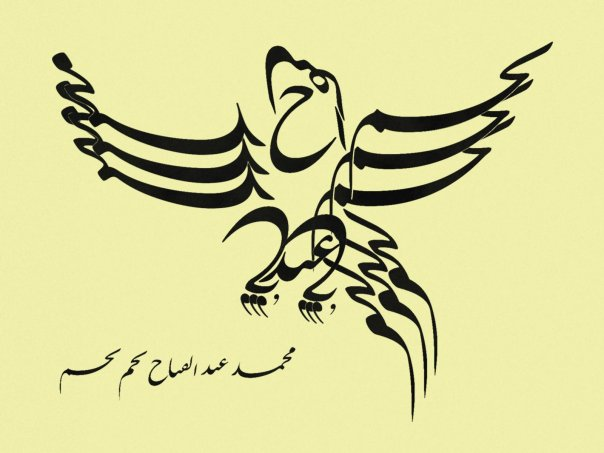 Mohamed Negm's work on Zoomorphic Calligraphy, his name in the shape of an eagle.